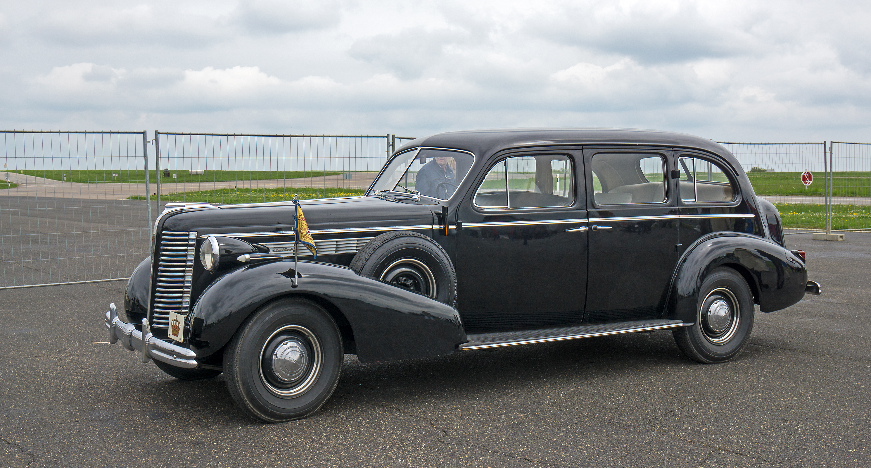 1938 Buick 8-90 Limited belonging to the grand-ducal family of Luxembourg. It has been used in 1940 for their escape from the Nazi-occupants. The car belongs today to the national automobile museum in Diekirch.